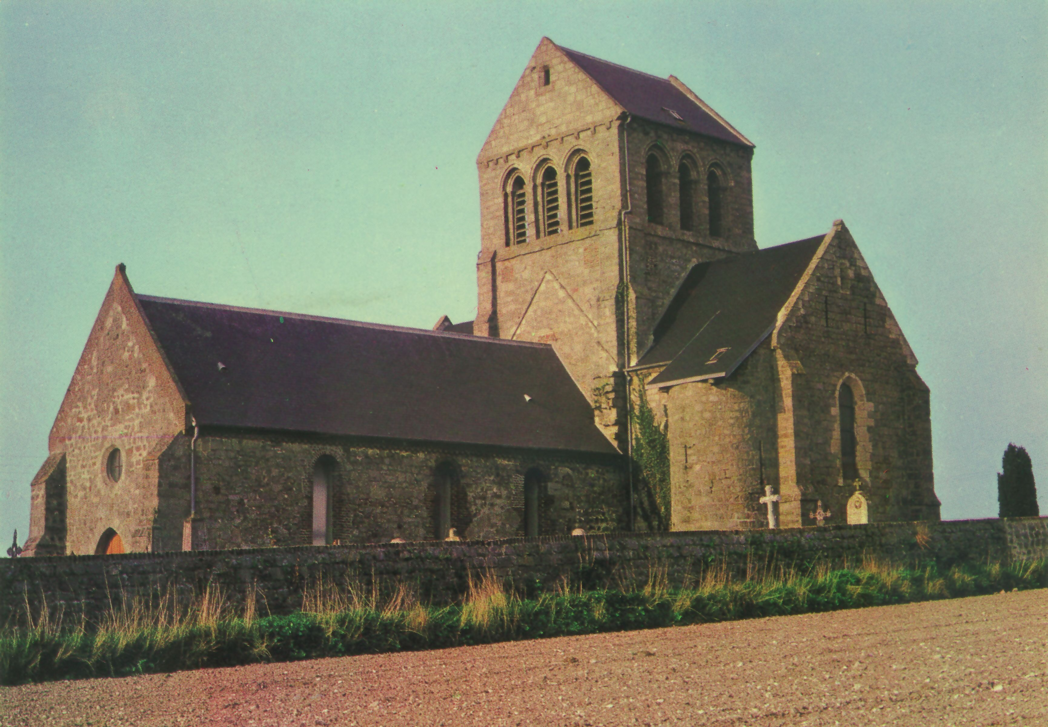 Vivaise's Church